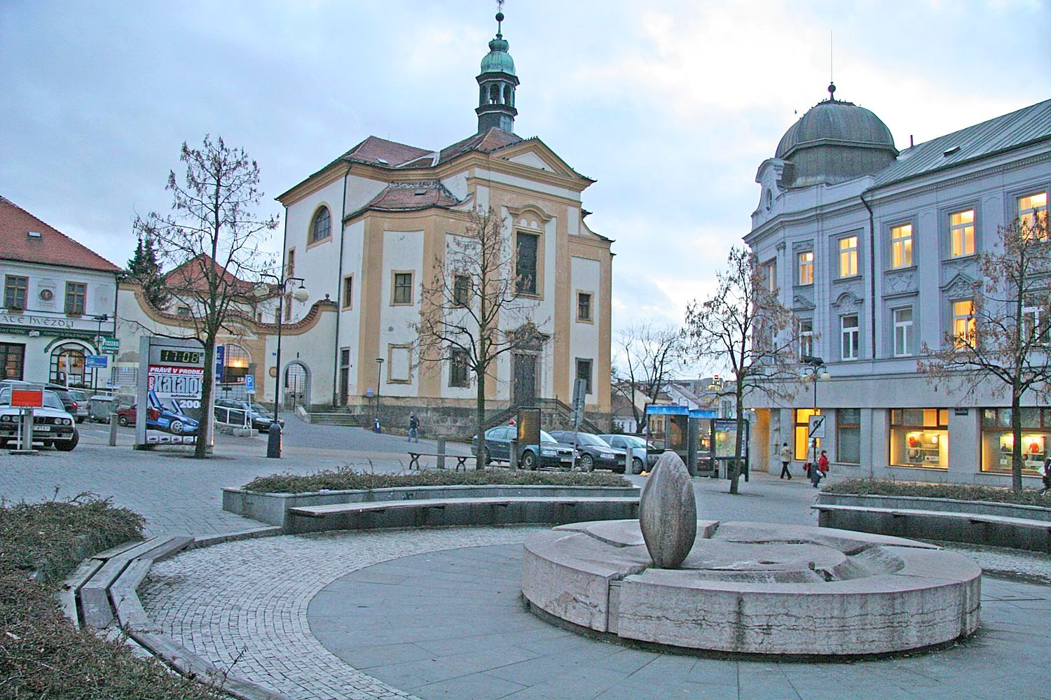 Main square in Benešov with St Anne church of former Piarist college. The church designed by Giovanni Battista Alliprandi was built in 1705 - 1710.